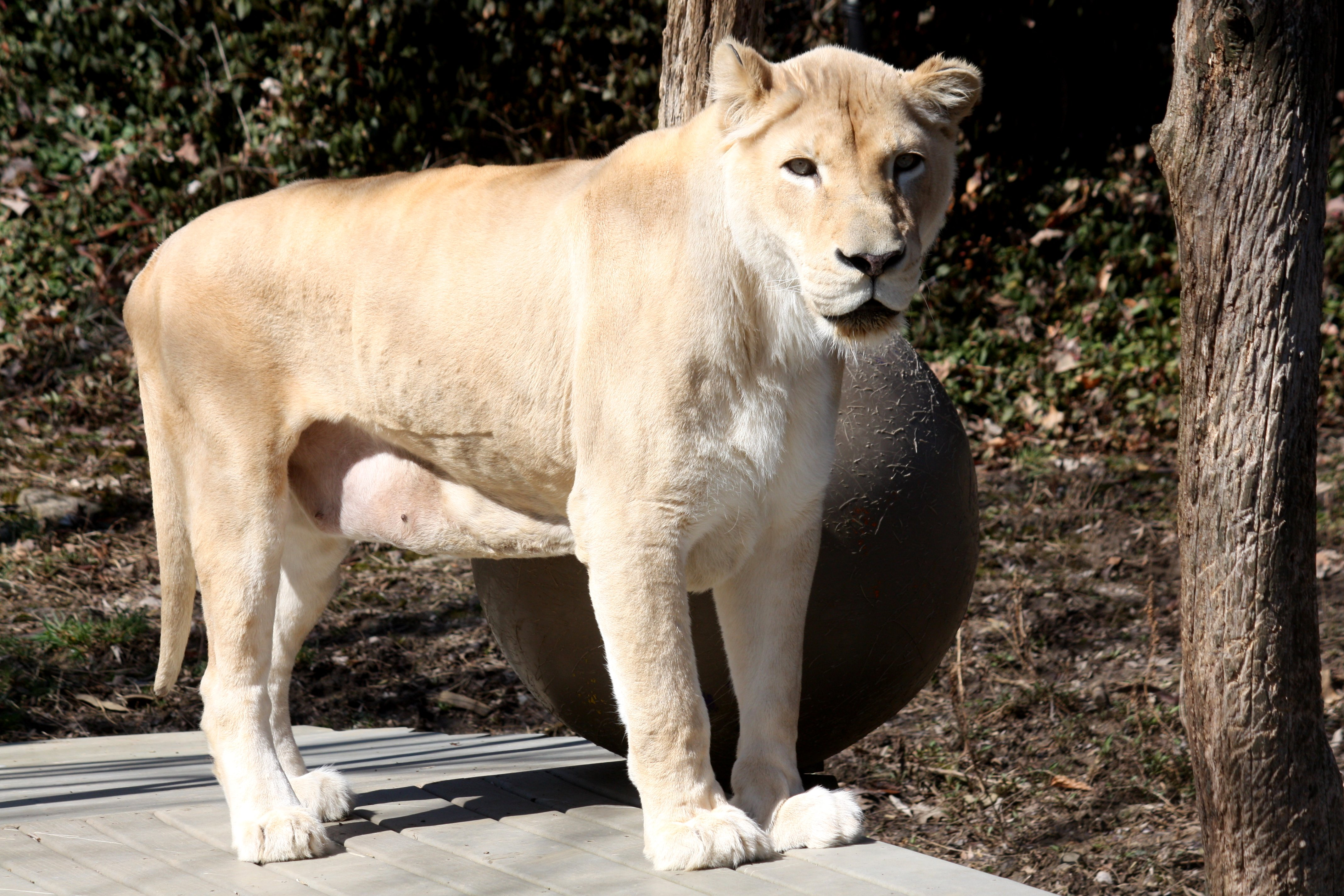 White Lion Panthera leo krugeri at Cincinnati Zoo